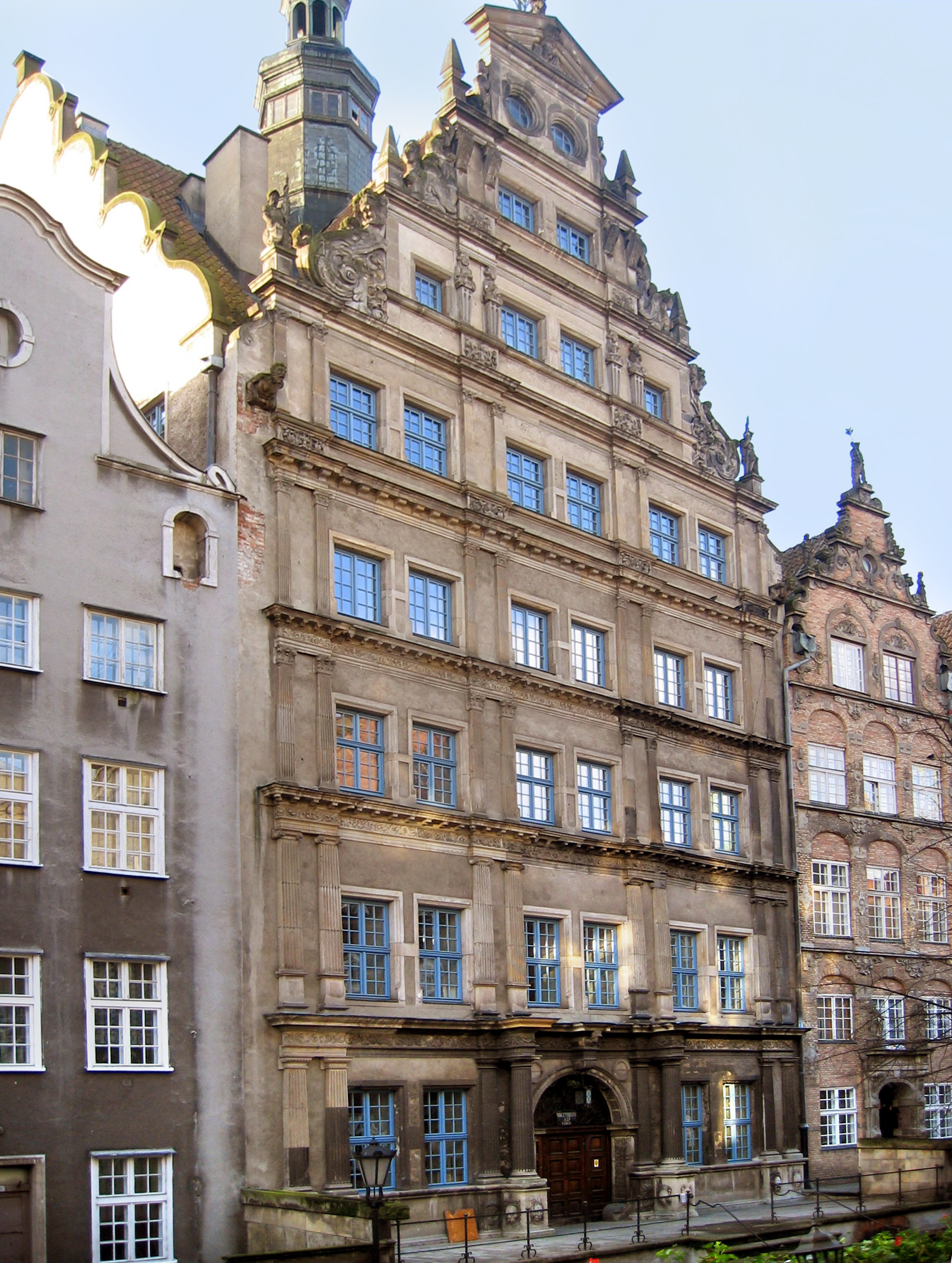 Gdansk, Poland, "The English House".